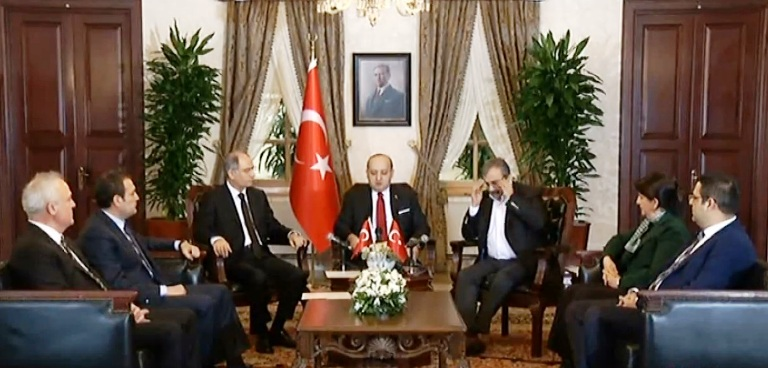 HDP and AKP delegates during negotiations for the Kurdish Solution Process, 1 March 2015.